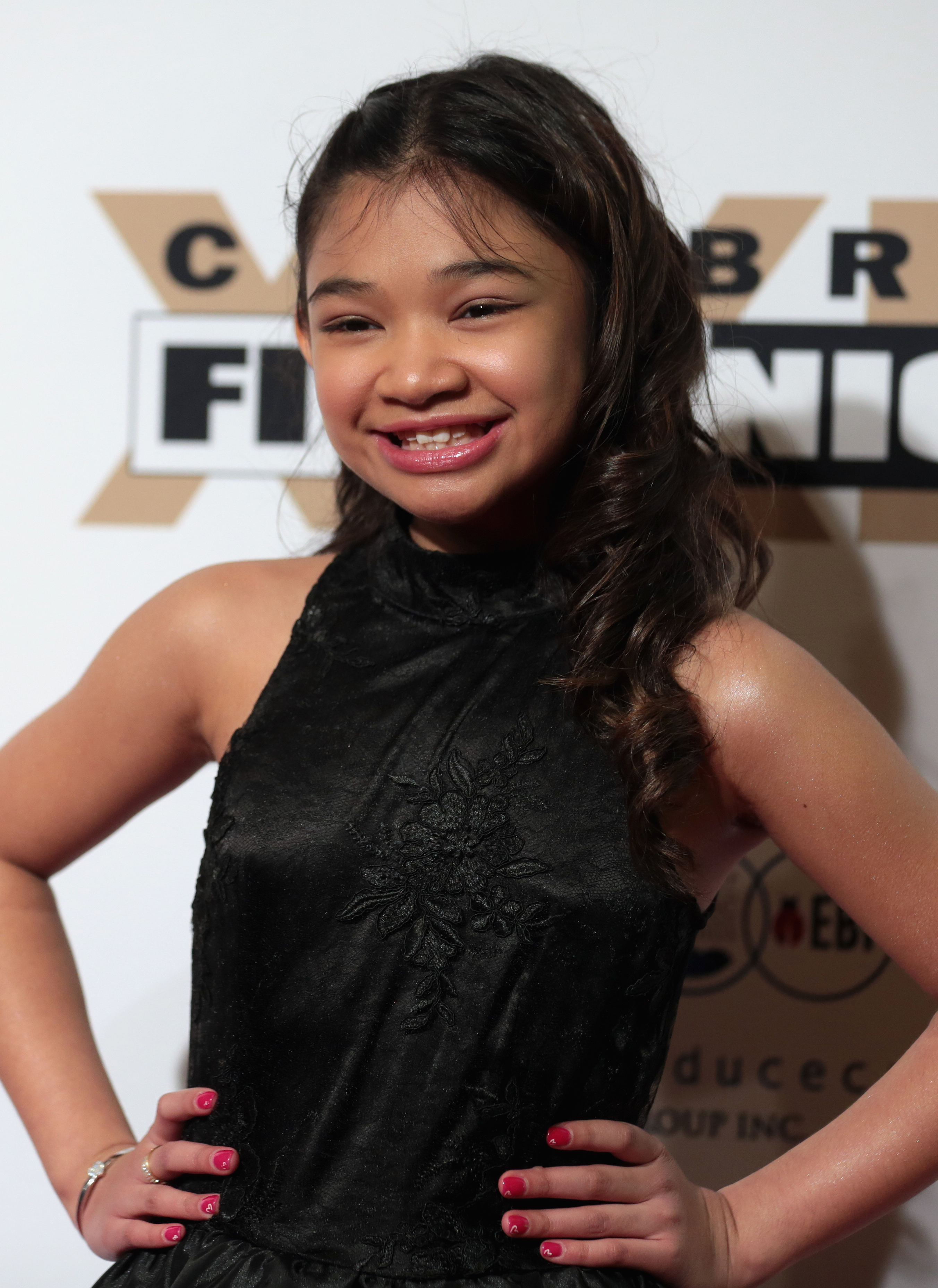 Angelica Hale at Celebrity Fight Night XXIV in Phoenix, Arizona.